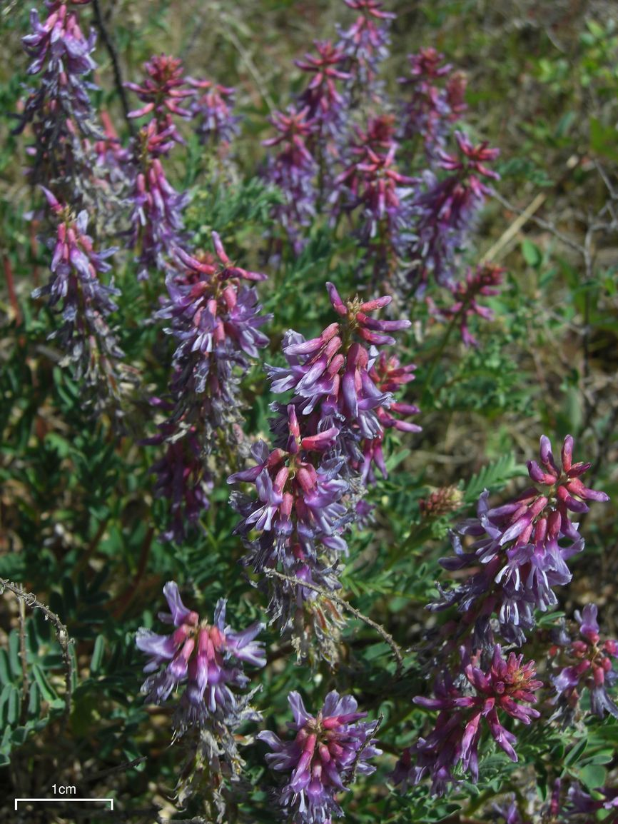 Astragalus bisulcatus (Hook.) Gray 20090622 (photo #17) Peace River, Alberta